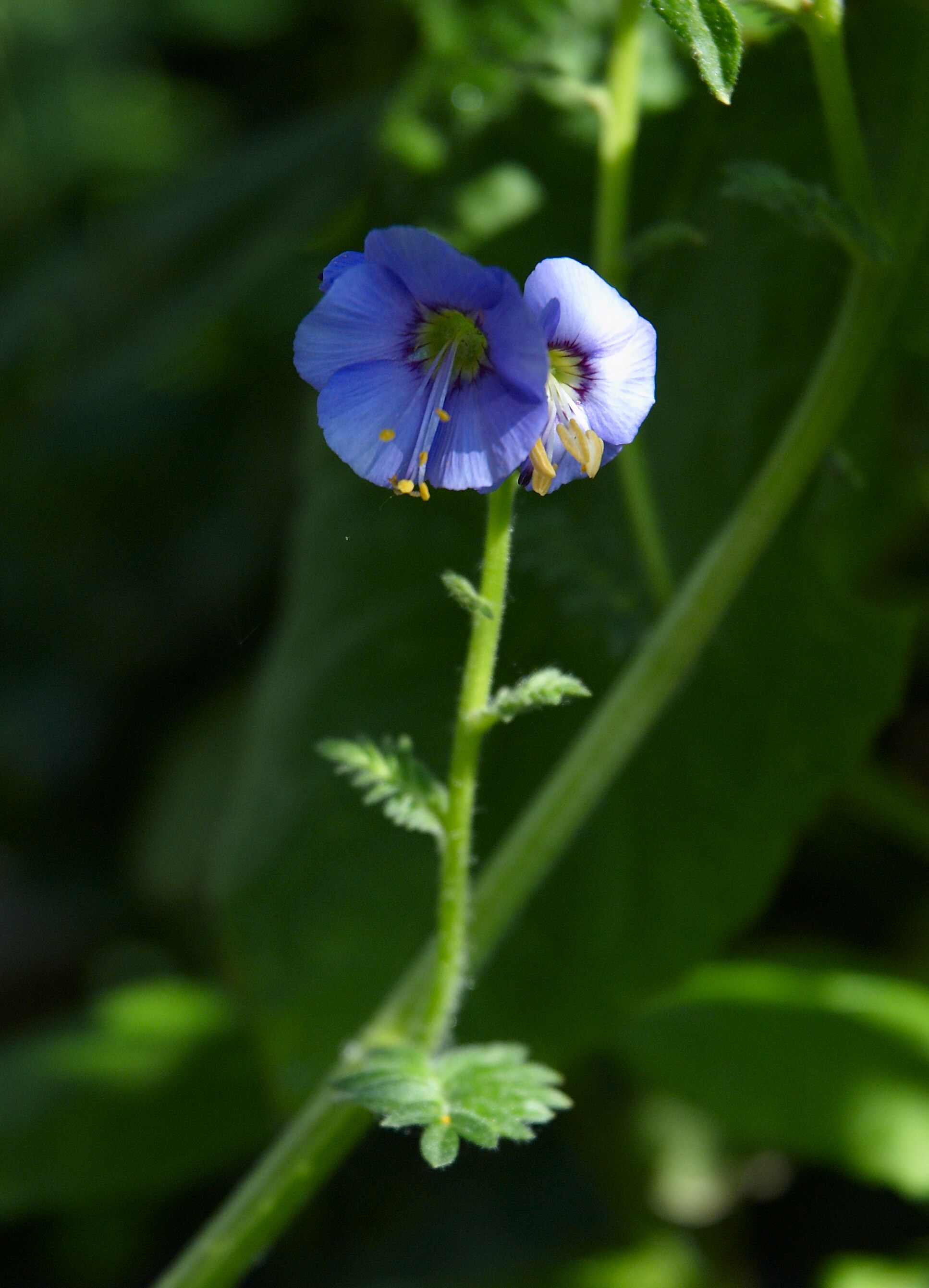 Jacob's Ladder or Greek valerian